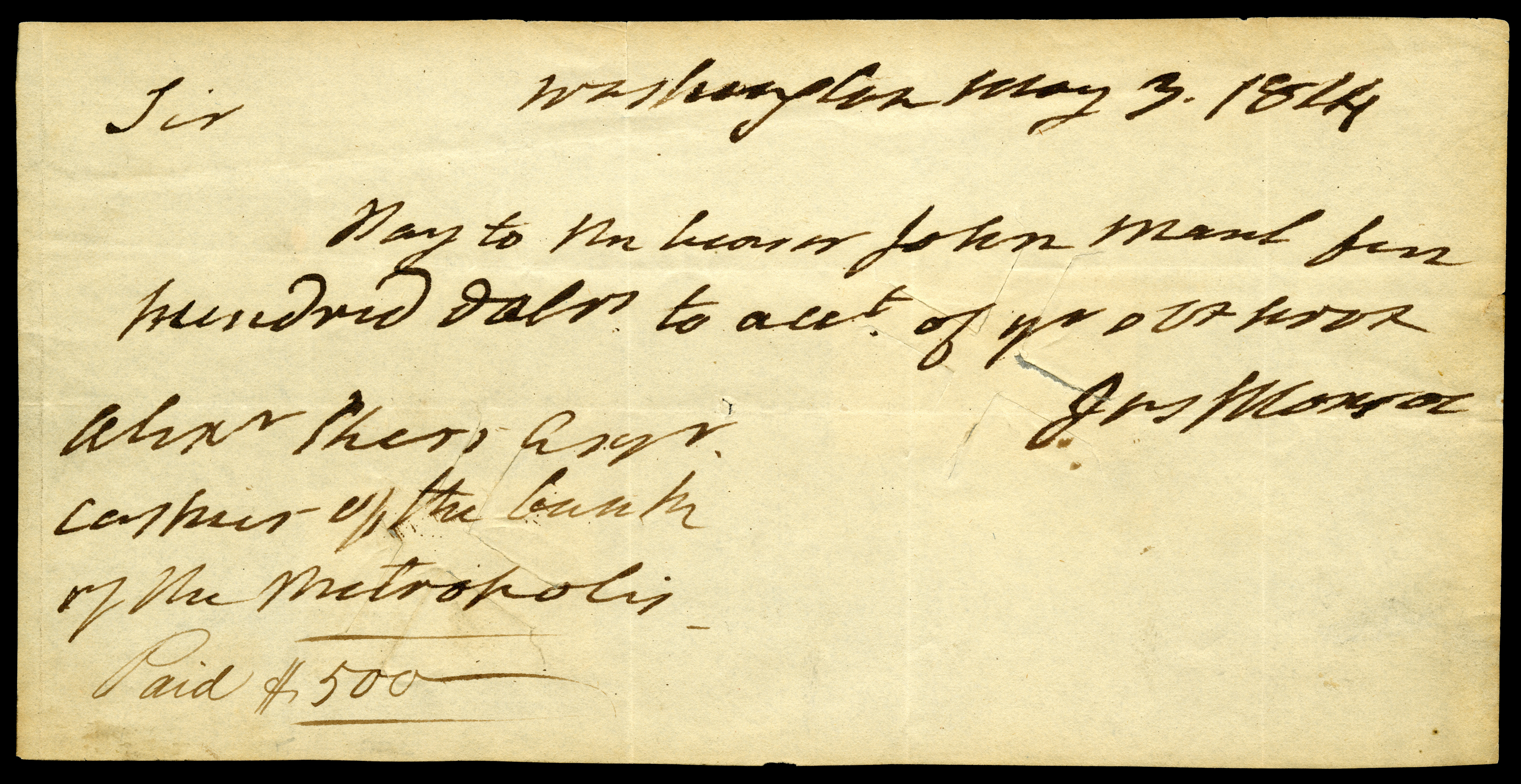 A signed check by James Monroe (5th President of the United States) while serving as United States Secretary of State.